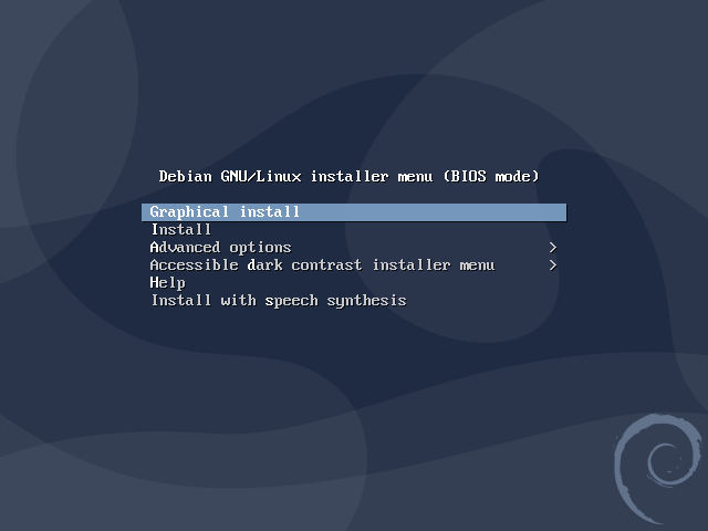 This was taken on a virtual system.